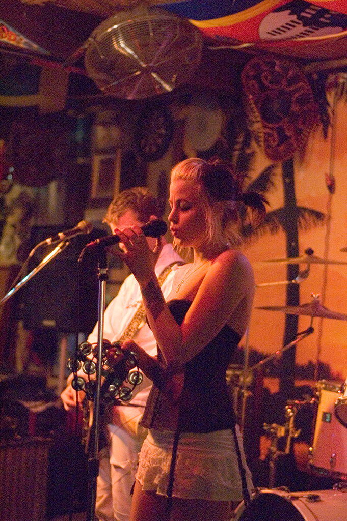 Shiny Toy Guns concert, 2005, the Burts Tiki Lounge, Utah, USA